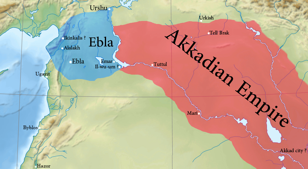 Ebla' second kingdom toward the end of the reign of Naram-Sin of Akkad At its height, the second Eblaite kingdom included Urshu in the north,1 and the city of Il-wu-um in the south below the great bend of the Euphrates (Íl-wu-um city).2 In the west it included the land of Mukis (Alalakh).3